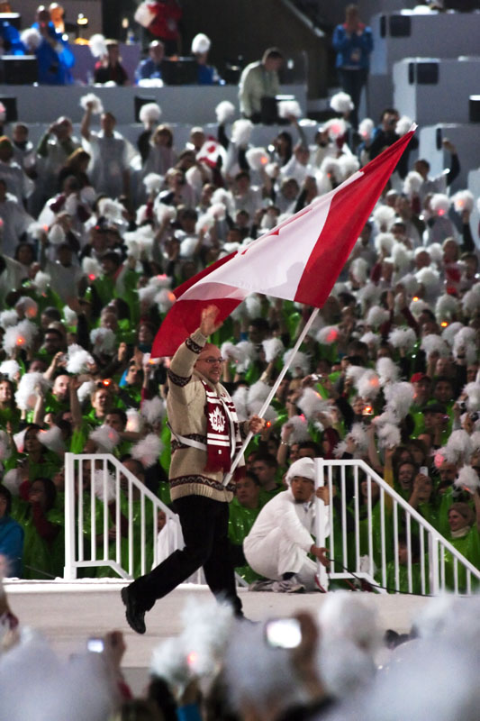 The flag bearer for Canada, Jean Labonté, as the Canadian delegation is entering the stadium at the Opening Ceremony on March 12th, at the Winter Paralympics 2010 in Vancouver, Canada.